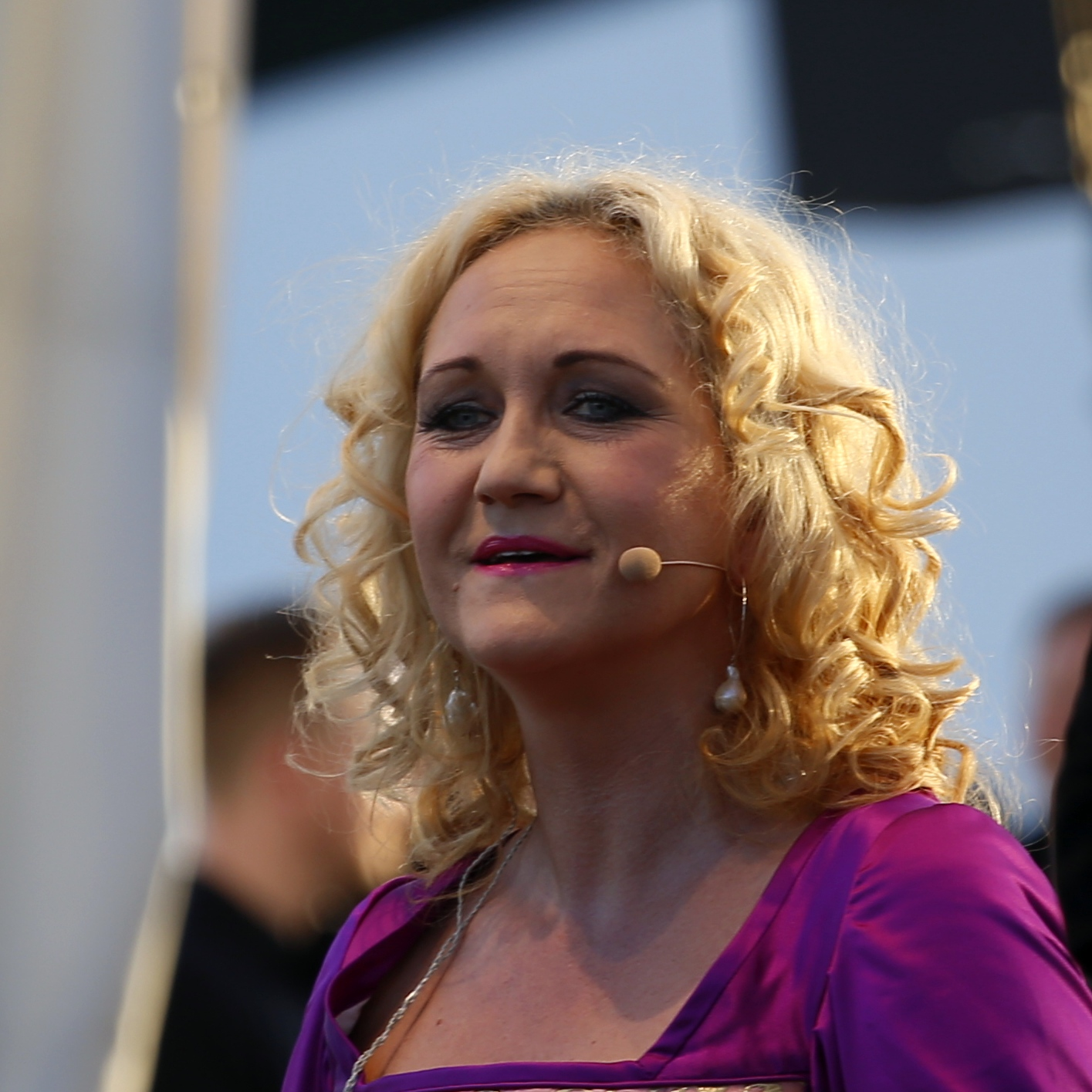 Soprano Simone Kermes during Klassik airleben in Leipzig, 2016